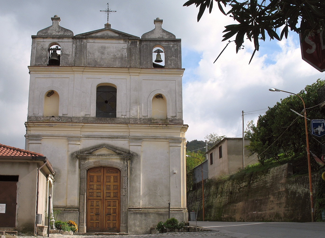 the church